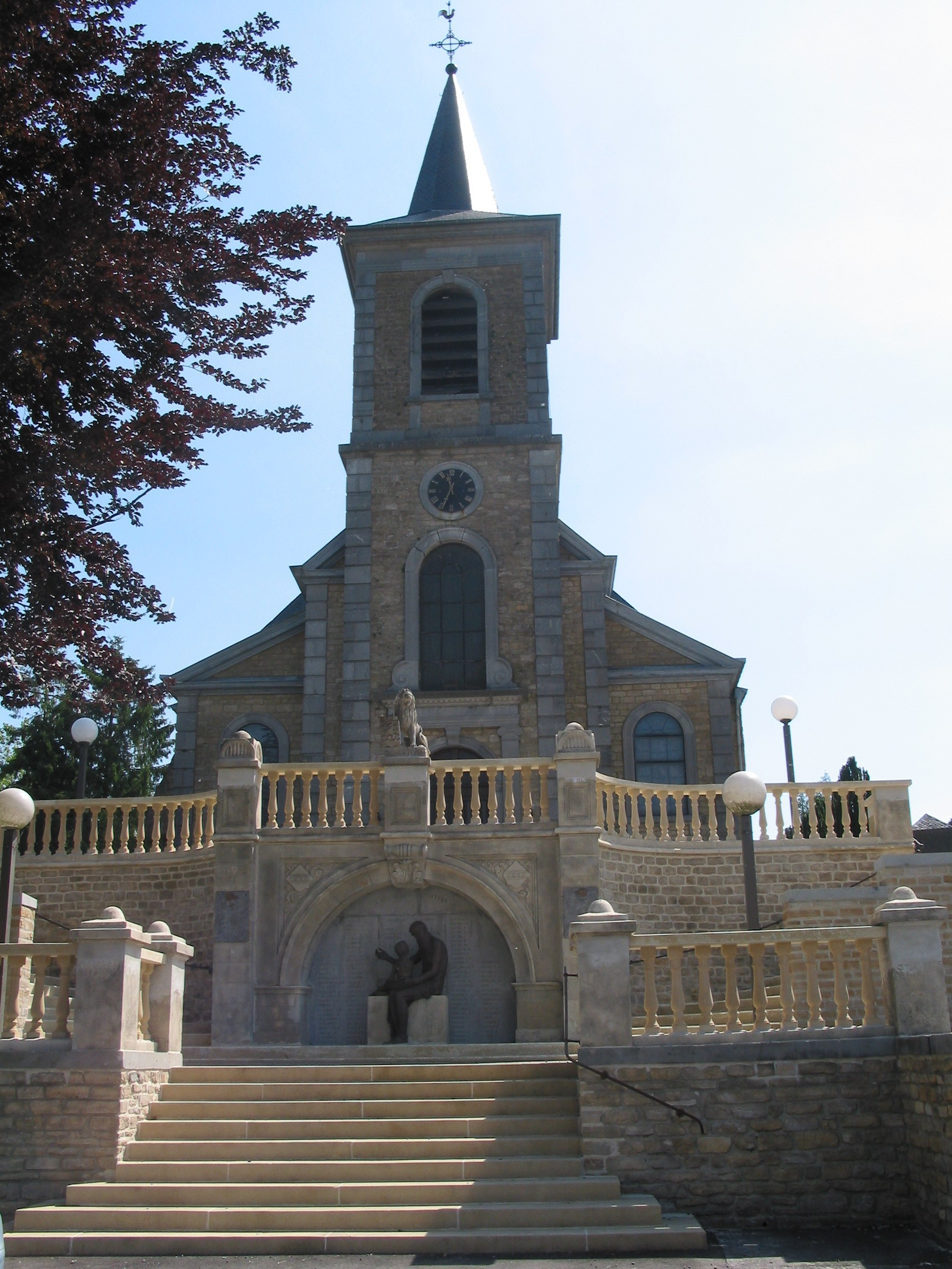 Tintigny (Belgium), Our Lady of the Assumption's church (17th century).